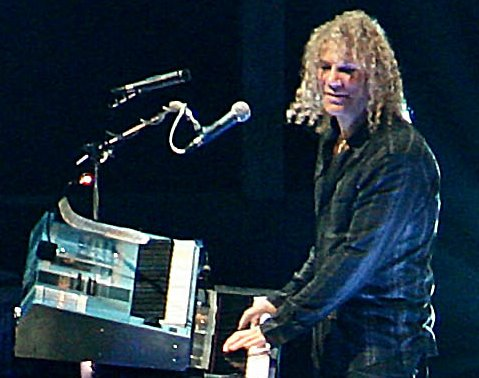 Derived from Flickr image